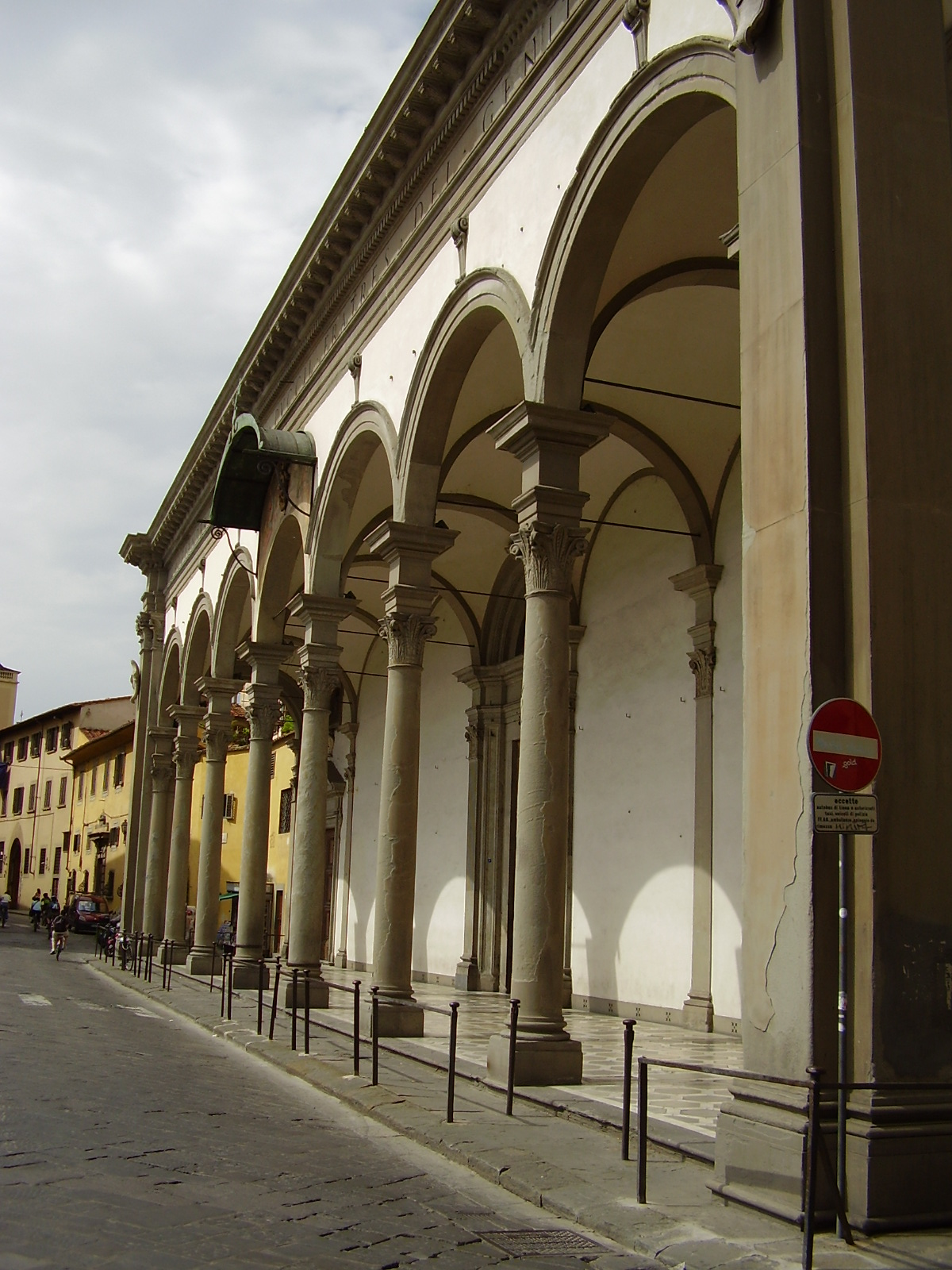 Santissima annunziata archade, church outside view in Florence Italy, 2006